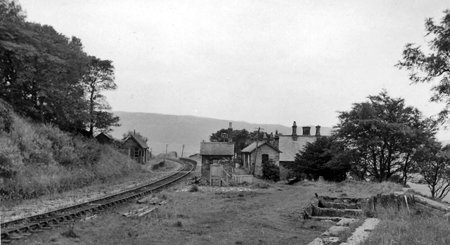 Remains of Barras Station. View SW, towards Kirkby Stephen, Tebay and Penrith, on Stainmore Line from Darlington via Barnard Castle. This was eight months after this celebrated line and the station had closed completely (22/1/62).